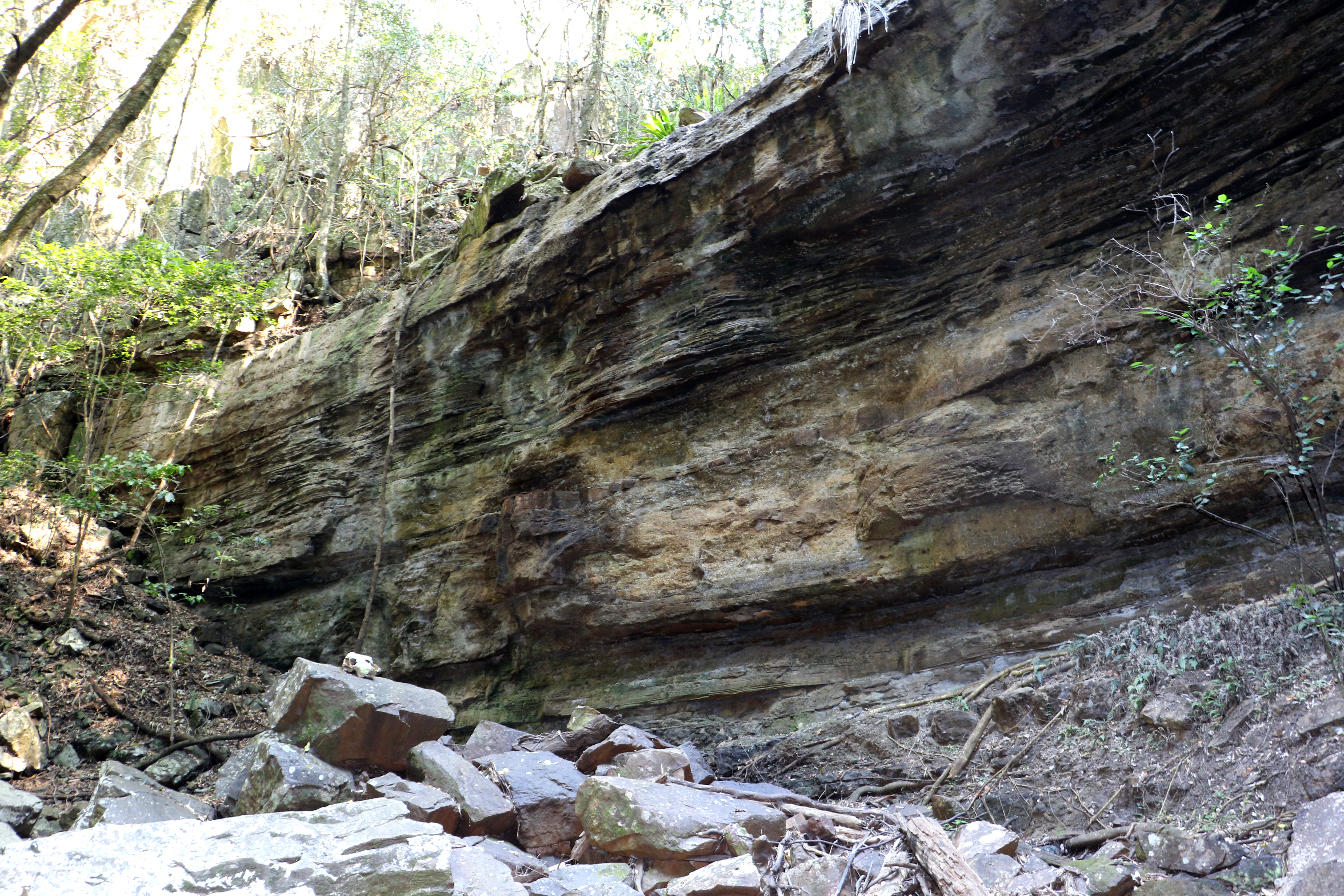 dry waterfall on Currowar creek with skull and Conjola formation sedimentary rocks, (Conjola Formation). Skull is of Bos taurus (discarded from the farmland above)